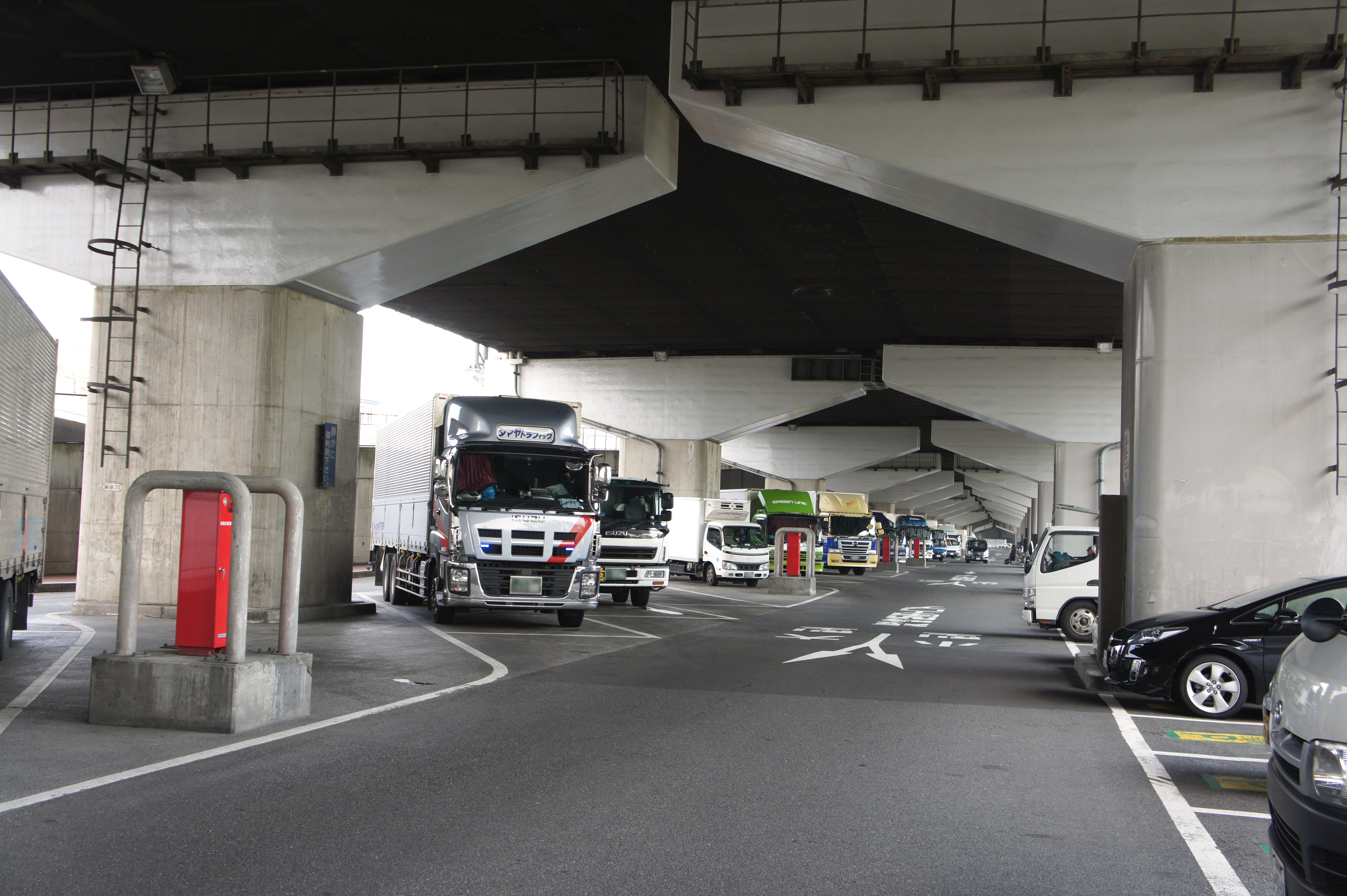 Higashiosaka Parking Area (Higashiosaka Rest Area), 3 Honjonishi Higashiosaka-City Osaka Japan.